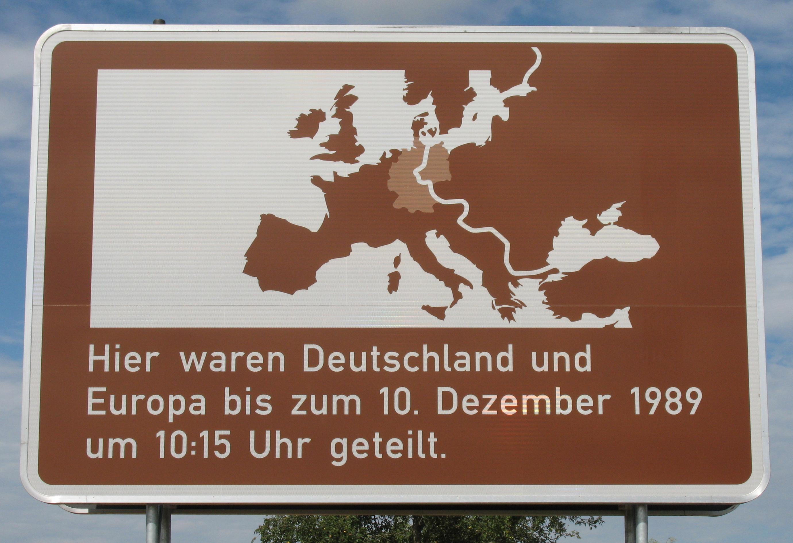 Sign under the direction board on the L1005 (1.1 km. south-east of Gleichen-Vogelsang) between Thuringia and Lower Saxony, Germany